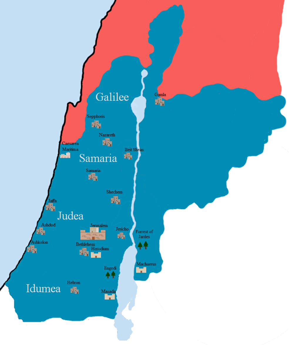 Map of the Herodian Kingdom of Judea from 37 BCE to Herod the Great's death in 4 BCE.